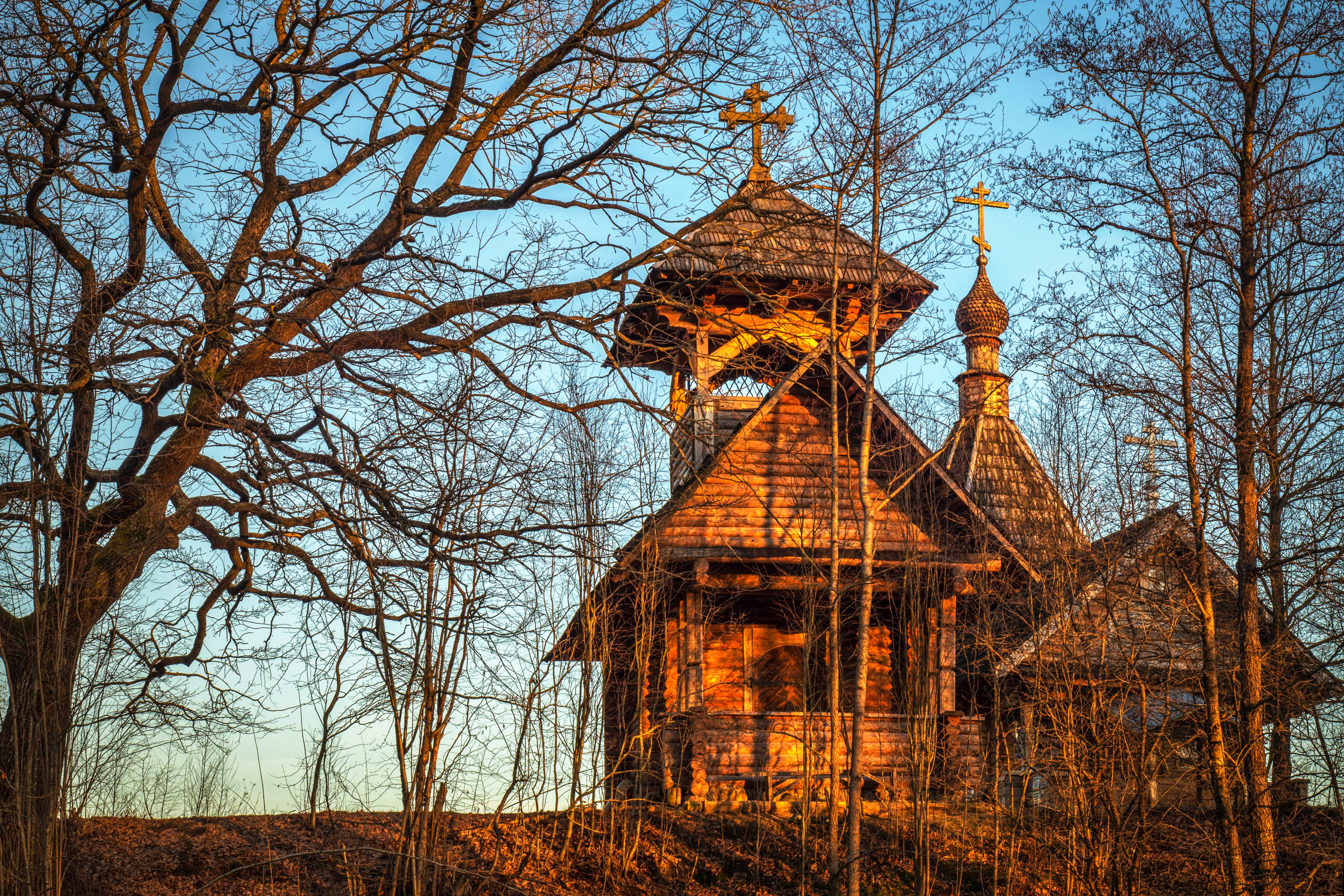 Boris and Gleb chapel in Zabroddzie